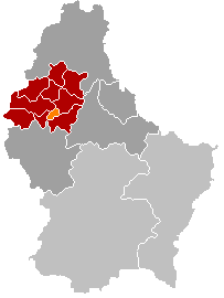 The municipality of Esch-sur-Sûre before its fusion, 2012-01-01 with municipalities of Neunhausen and Heiderscheid.